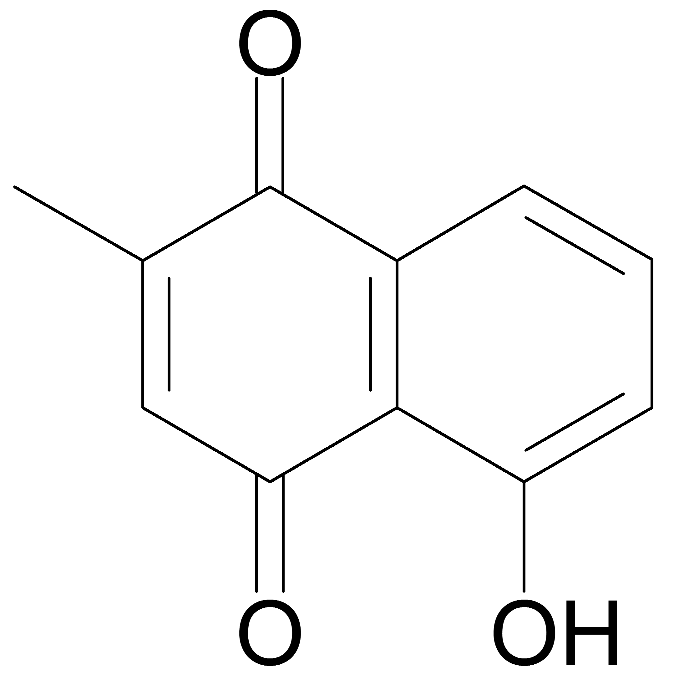 Chemical structure of plumbagin (5-Hydroxy-2-methyl-1,4-naphthoquinone)